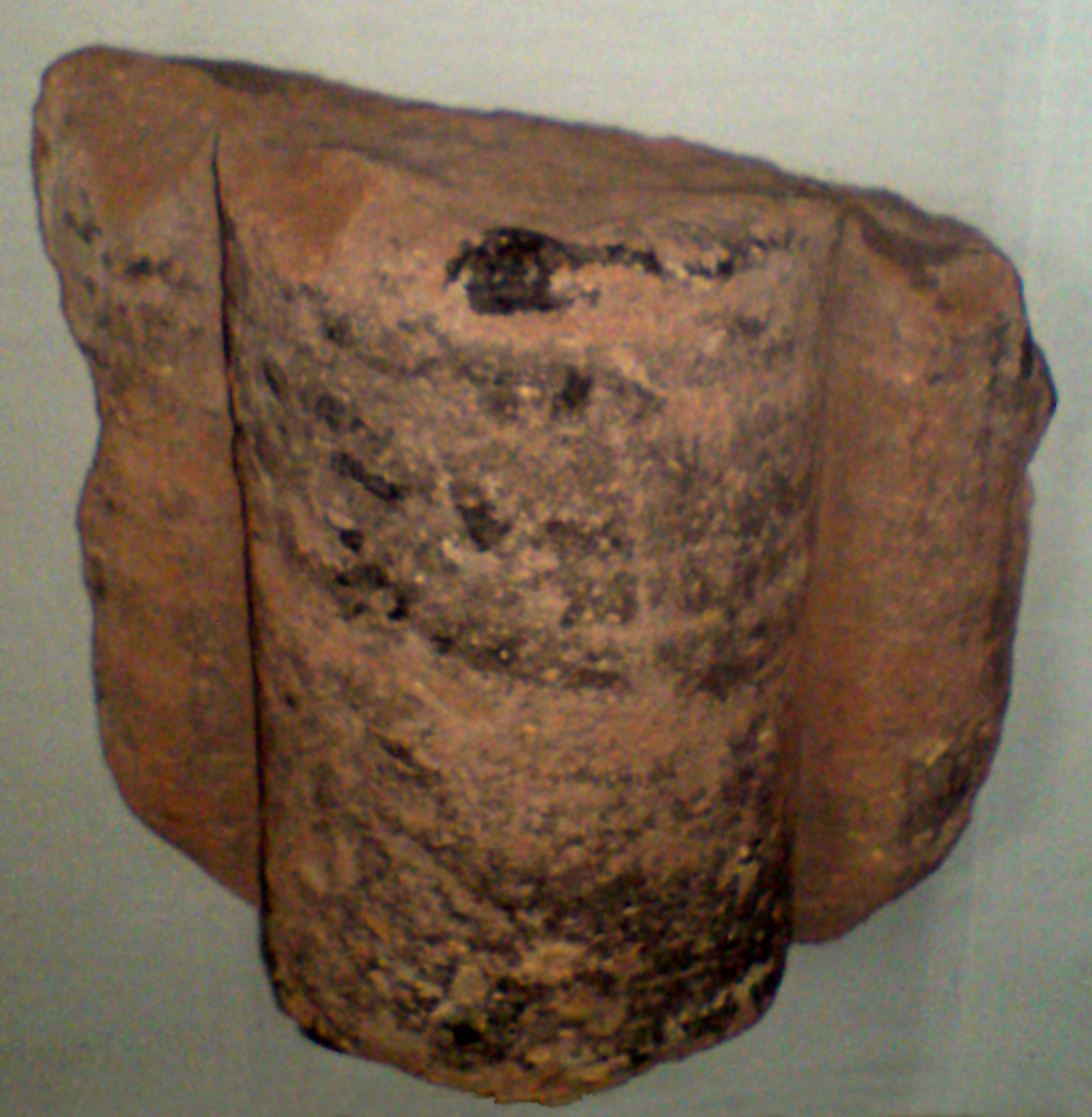 Surviving stone from the Priory of St Thomas, Birmingham. Photographed in Birmingham Museum and Art Gallery in February 2010.